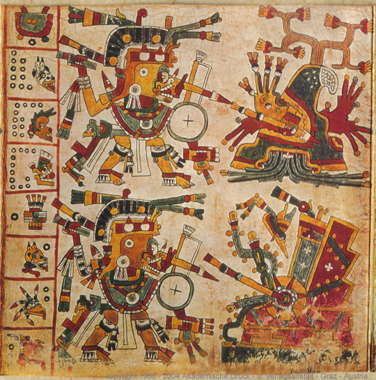 Picture of Tlāhuizcalpantecuhtli in the Codex Cospi